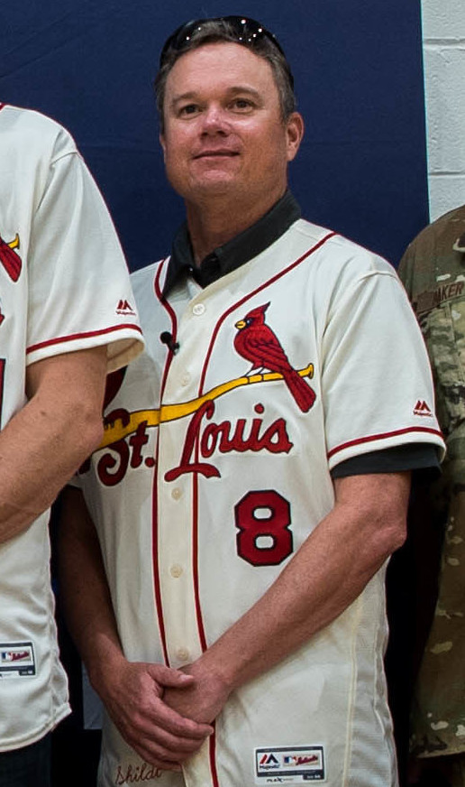 The St. Louis Cardinals baseball team visited Scott Air Force Base, Ill., on Aug. 21, 2019 to see the Wounded Warrior CARE event. The event highlights the resiliency of Air Force wounded warriors. (U.S. Air Force photo by Airman 1st Class Nathaniel Hudson)